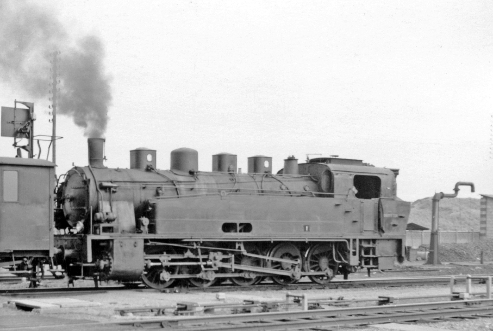 SNCF Nord 0-10-0T shunting at Calais Maritime (Pas de Calais), 1959.